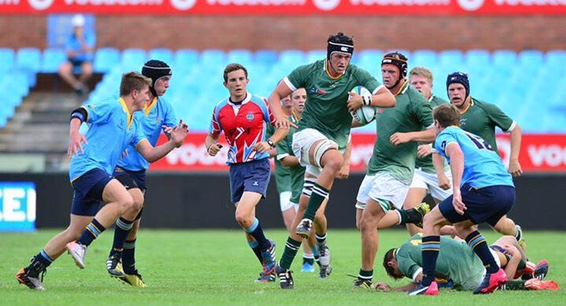 Seen on Loftus Versveld